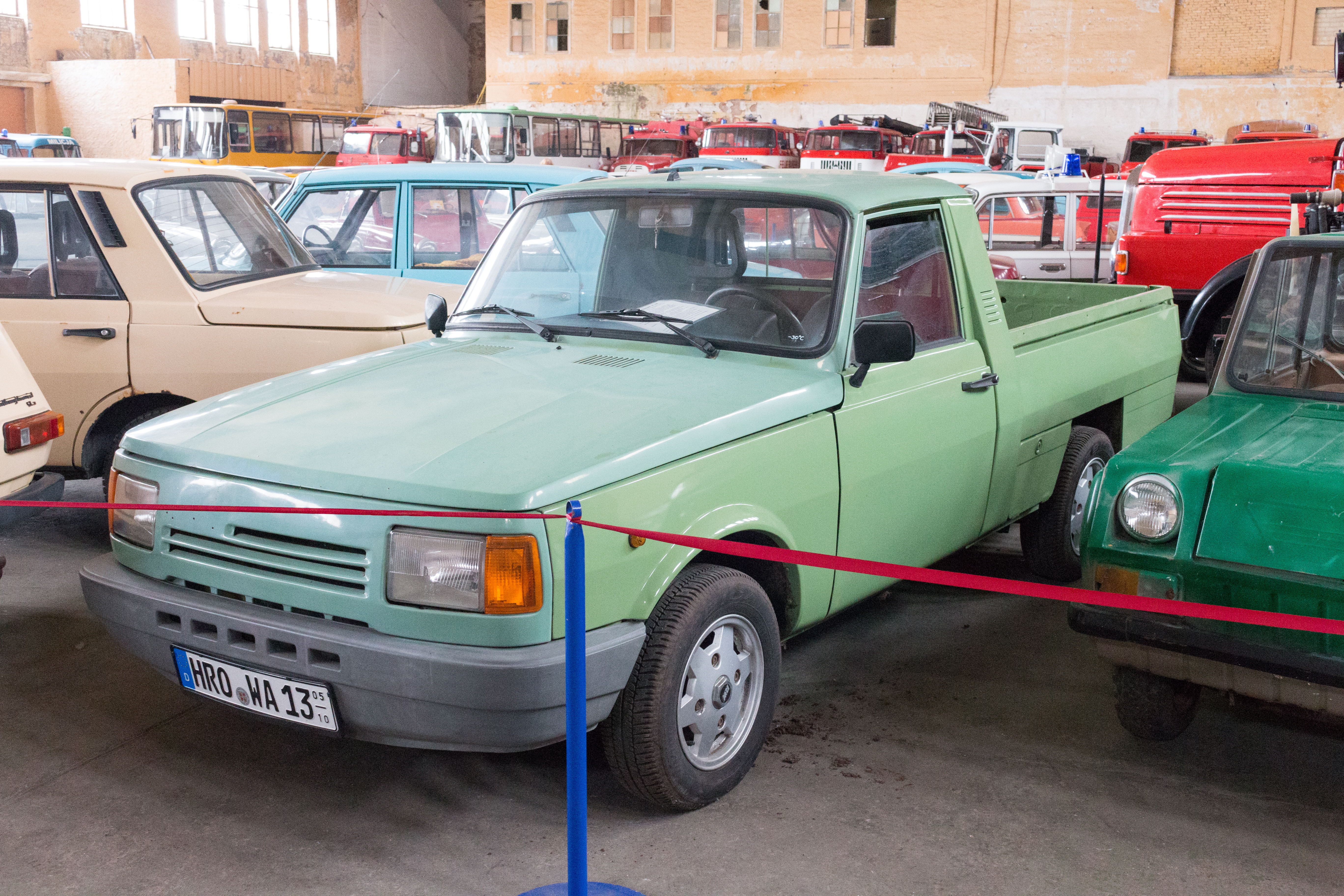 Technik-Museum Pütnitz